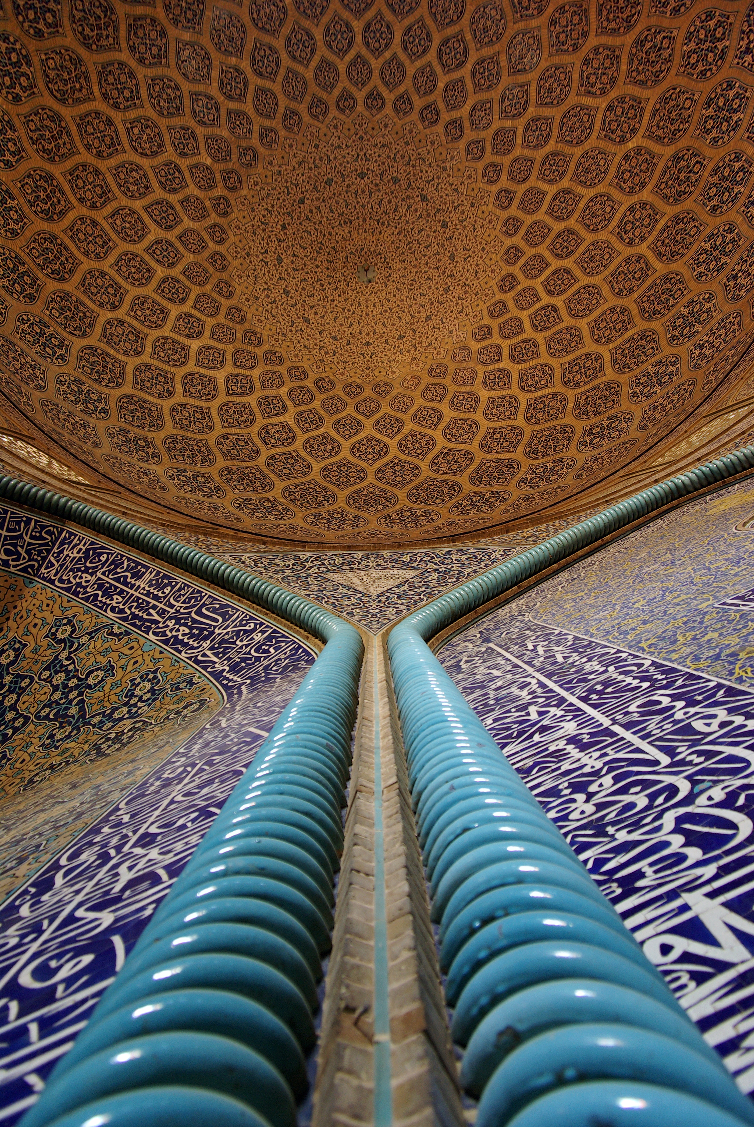 Interior wall and dome ceiling of the Sheikh-Lotf-Allah mosque in Isfahan, Iran